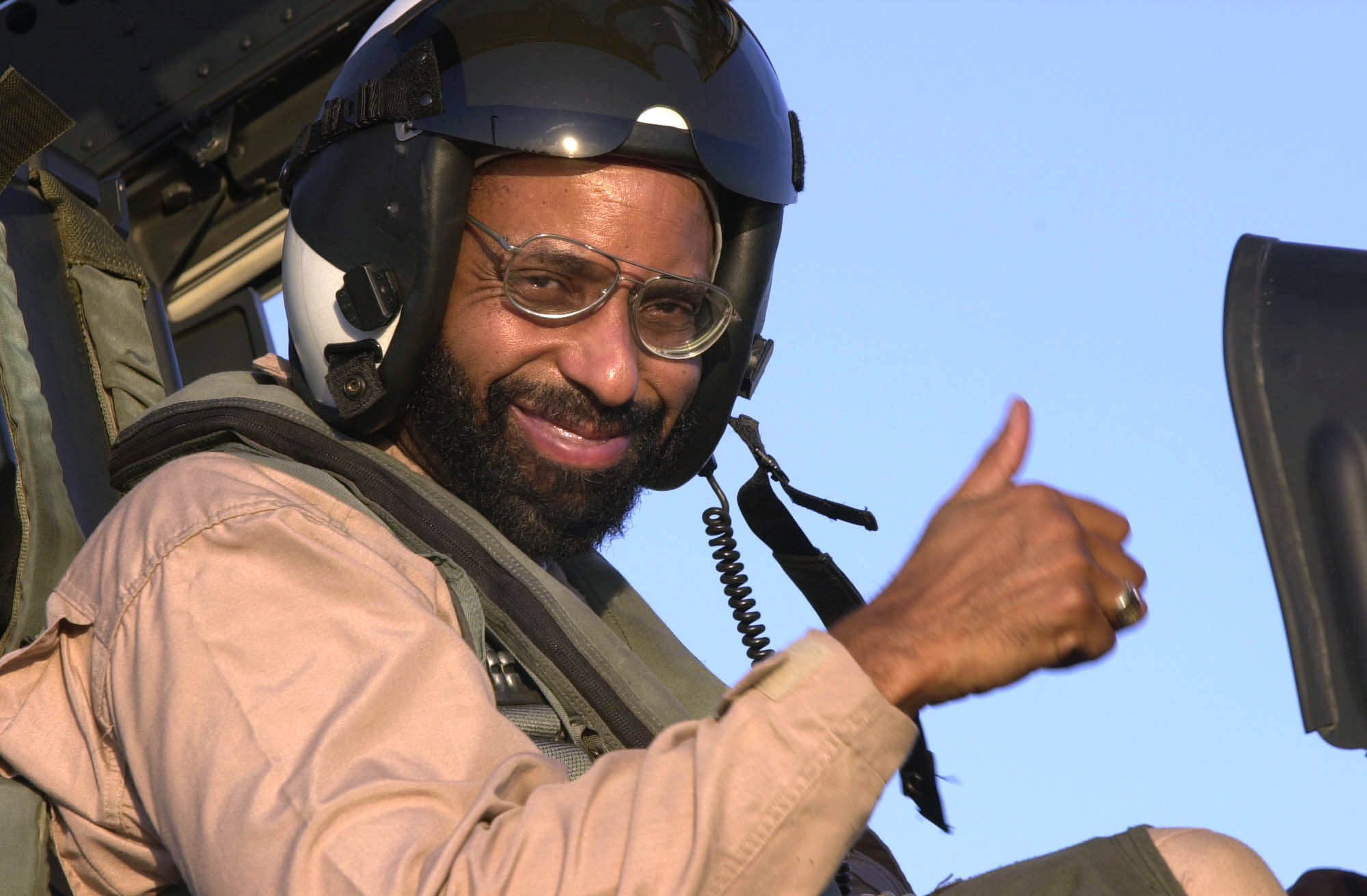 Central Command Area of Responsibility (Aug. 31, 2003) -- The Honorable Richard L. Baltimore, US Ambassador to Oman, gives a thumbs up following a flight in an F/A-18F Super Hornet assigned to the “Black Aces” of Fixed Wing Strike Fighter Squadron Forty One (VFA-41), on the flight deck aboard USS Nimitz (CVN 68). Nimitz Strike Group and her embarked Carrier Air Wing Eleven (CVW-11) are deployed in support of Operation Iraqi Freedom, the multi-national coalition effort to liberate the Iraqi people, eliminate Iraq’s weapons of mass destruction, and end the regime of Saddam Hussein. U.S. Navy photo by Airman Angel G Hilbrands. (RELEASED)